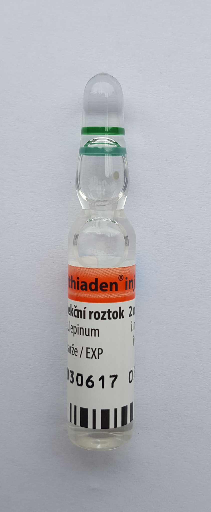 Bisulepine 0,5mg/ml vial